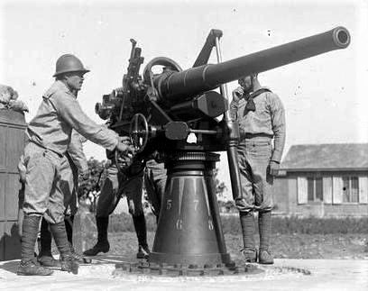 The Italian Army in Albania, 1916-1918 Italian gunners maneuvering an anti-aircraft gun on the Adriatic coast.